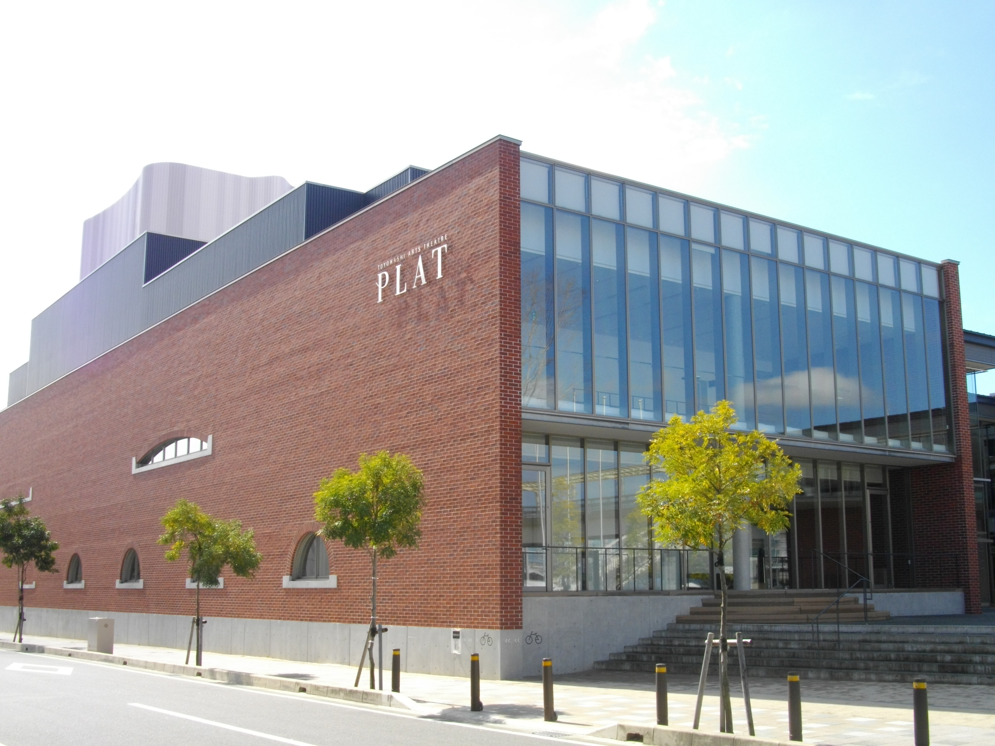 Toyohashi Arts Theatre PLAT